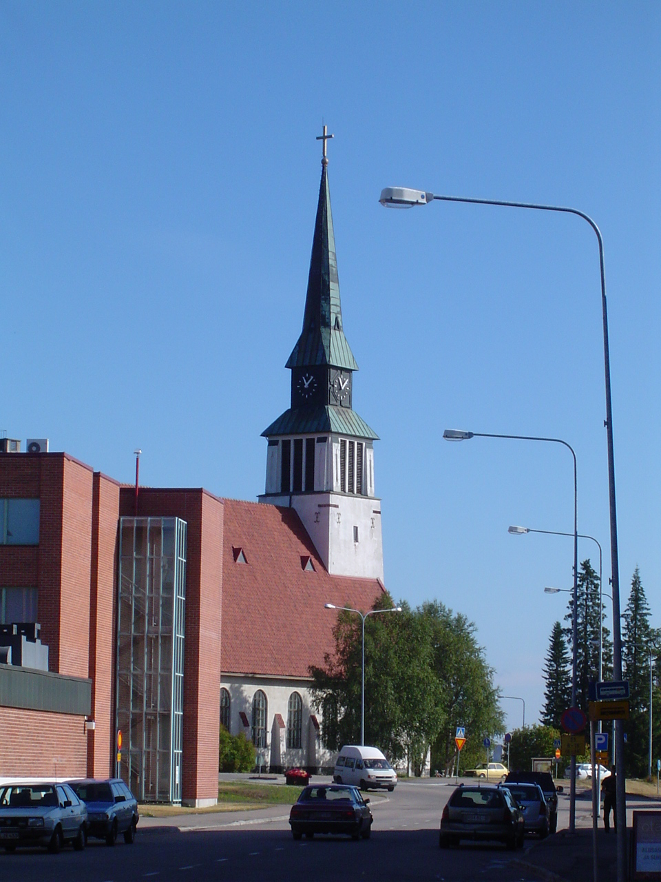 Kemijärvi Church in Kemijärvi, Finland. Built in 1949–1950. Architect: Bertel Liljequist.